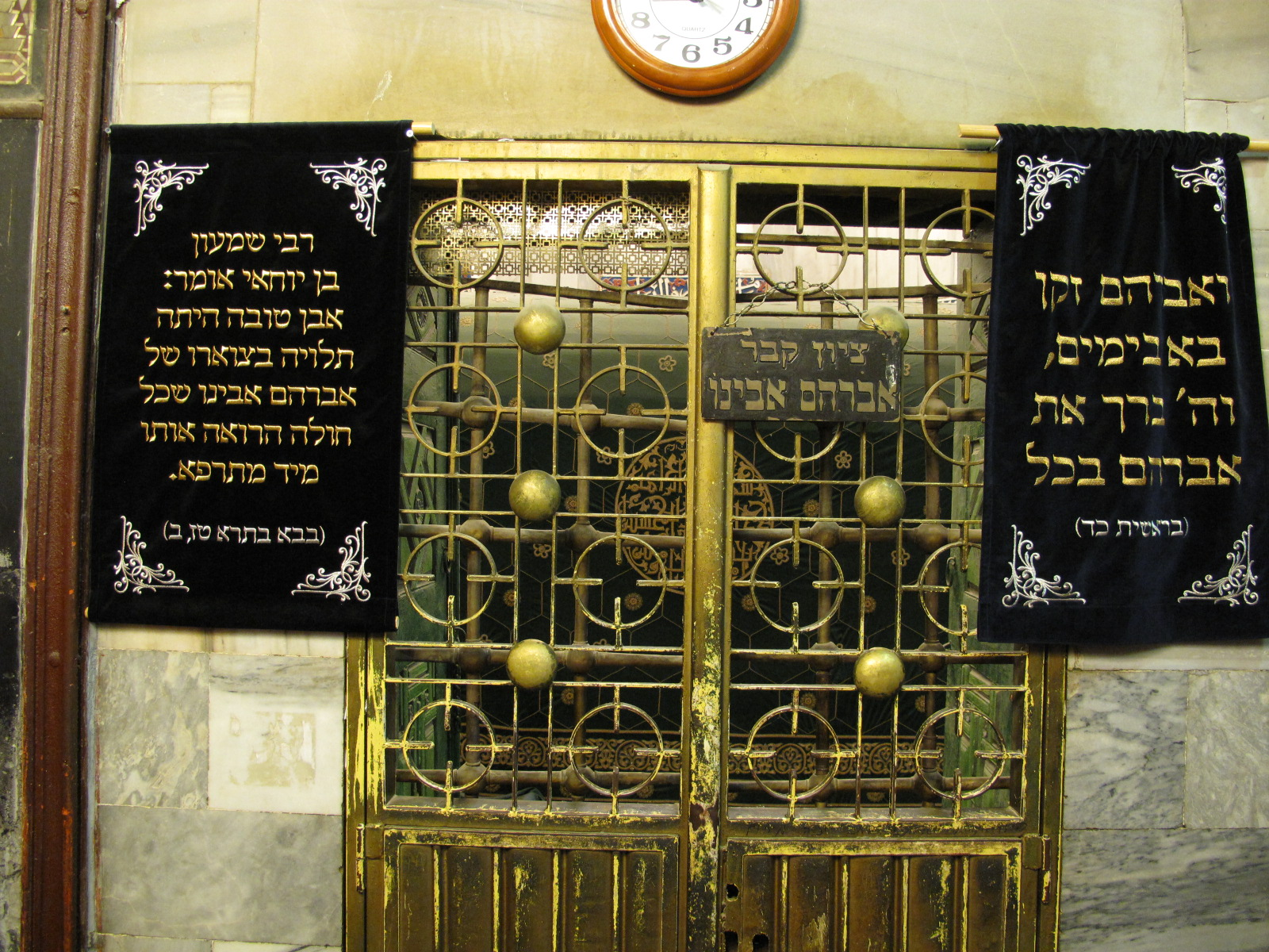 Cenotaph of Abraham - northwestern view Photo taken by myself in the Cave of the Patriarchs (Hebron) on October 25, 2010